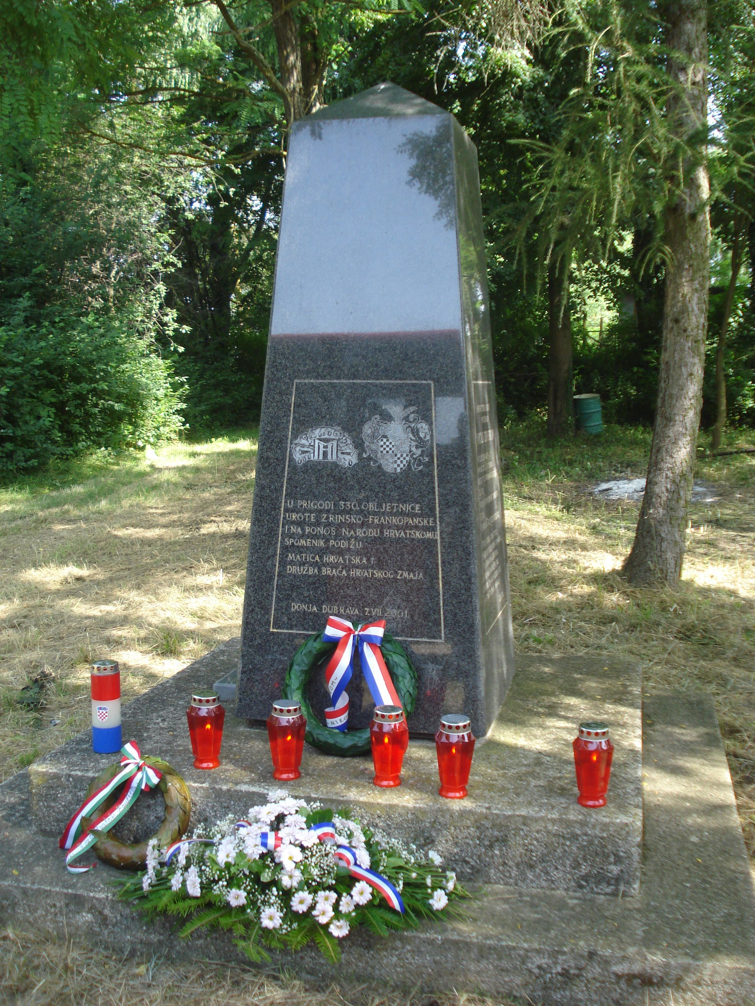 Novi Zrin Castle monument, a granite obelisk at Donja Dubrava in Međimurje County, Croatia - south view